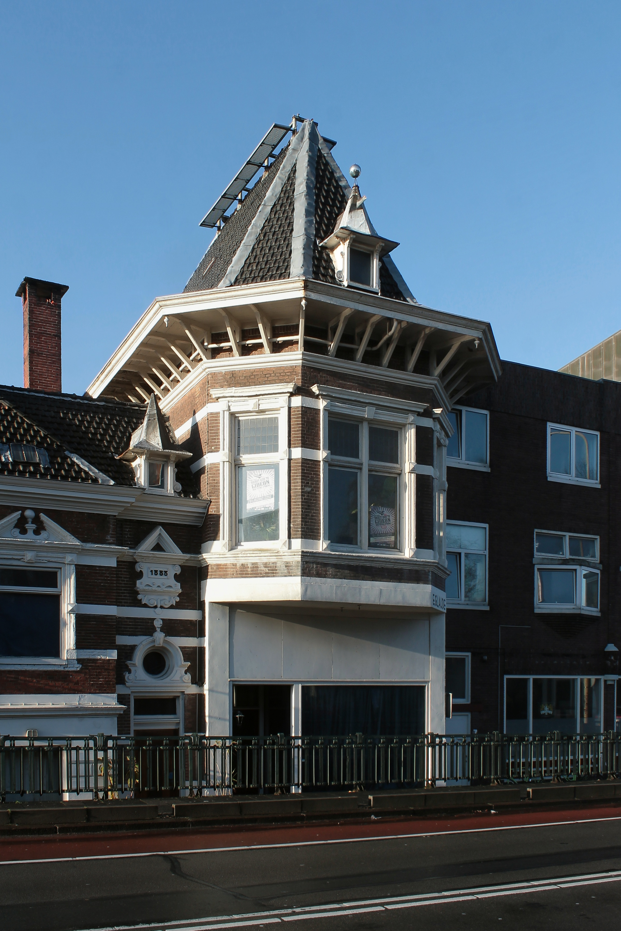 Tuinkoepel (1888) in the Dutch city of Groningen.